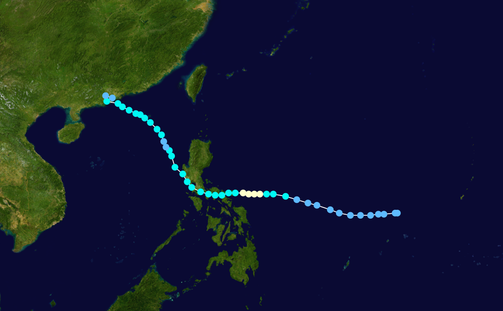 Typhoon Mac 1979 track. Uses the color scheme from the Saffir-Simpson Hurricane Scale.